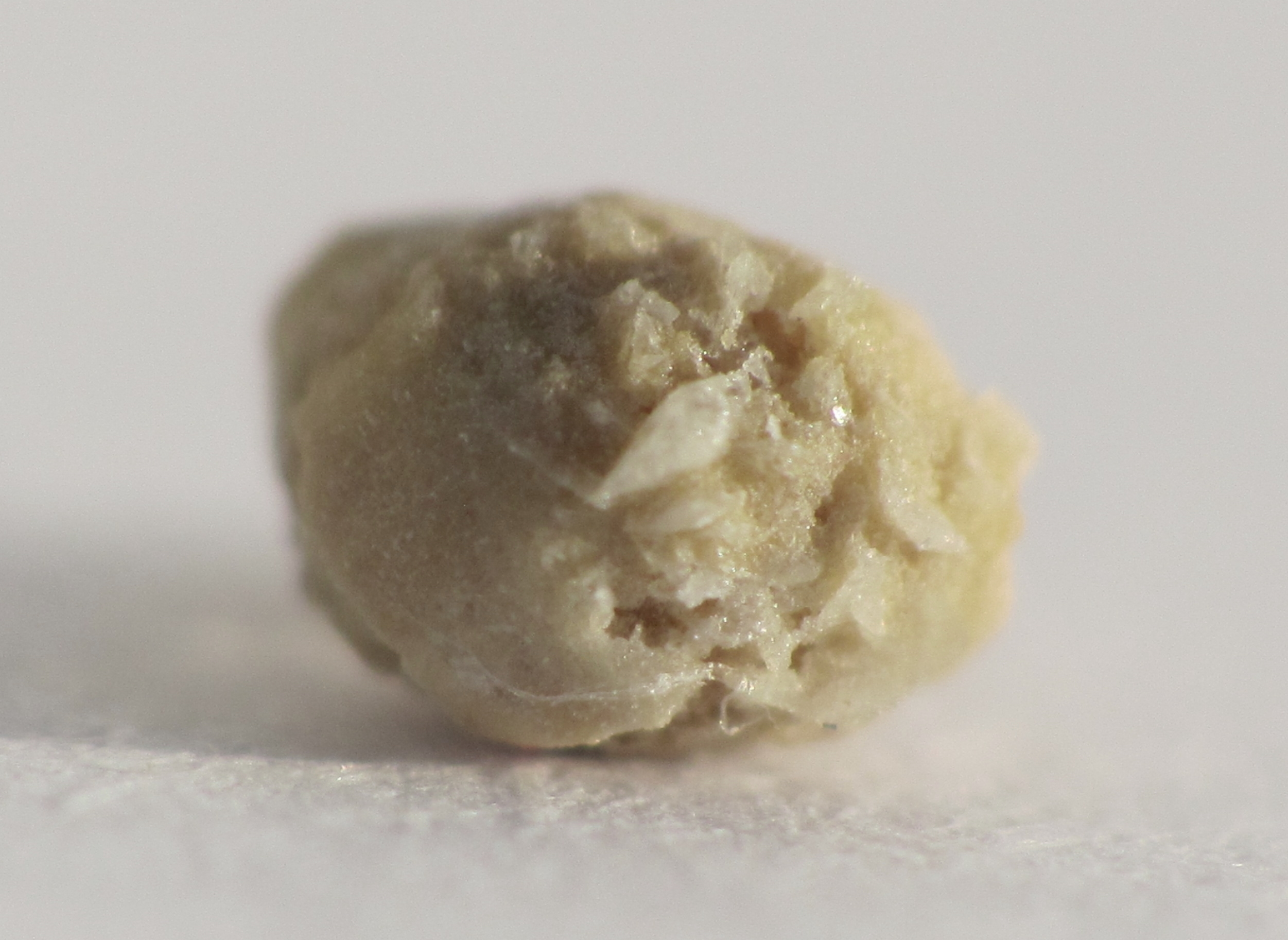 Kidney stone 4mm